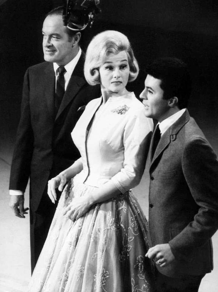 Photo of Bob Hope, Jo Stafford, and James Darren from the 1960's television program The Jo Stafford Show. Copyright details No copyright marks are seen on the photo.